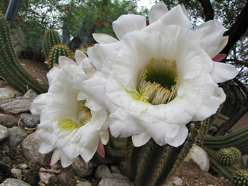 Trichocereus